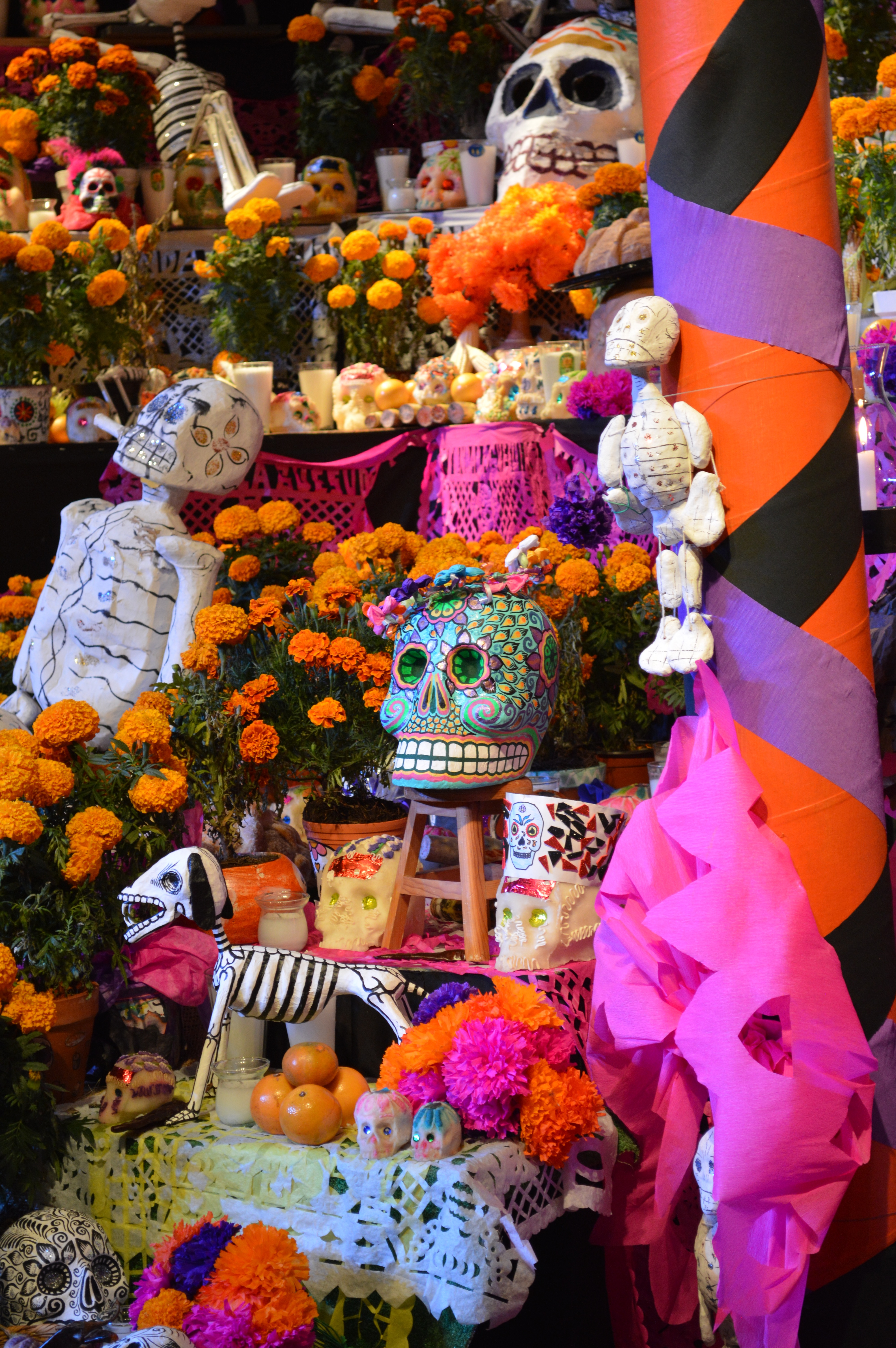 This image represents the Catrina, a female character representing the dead created by Guadalupe Posadas